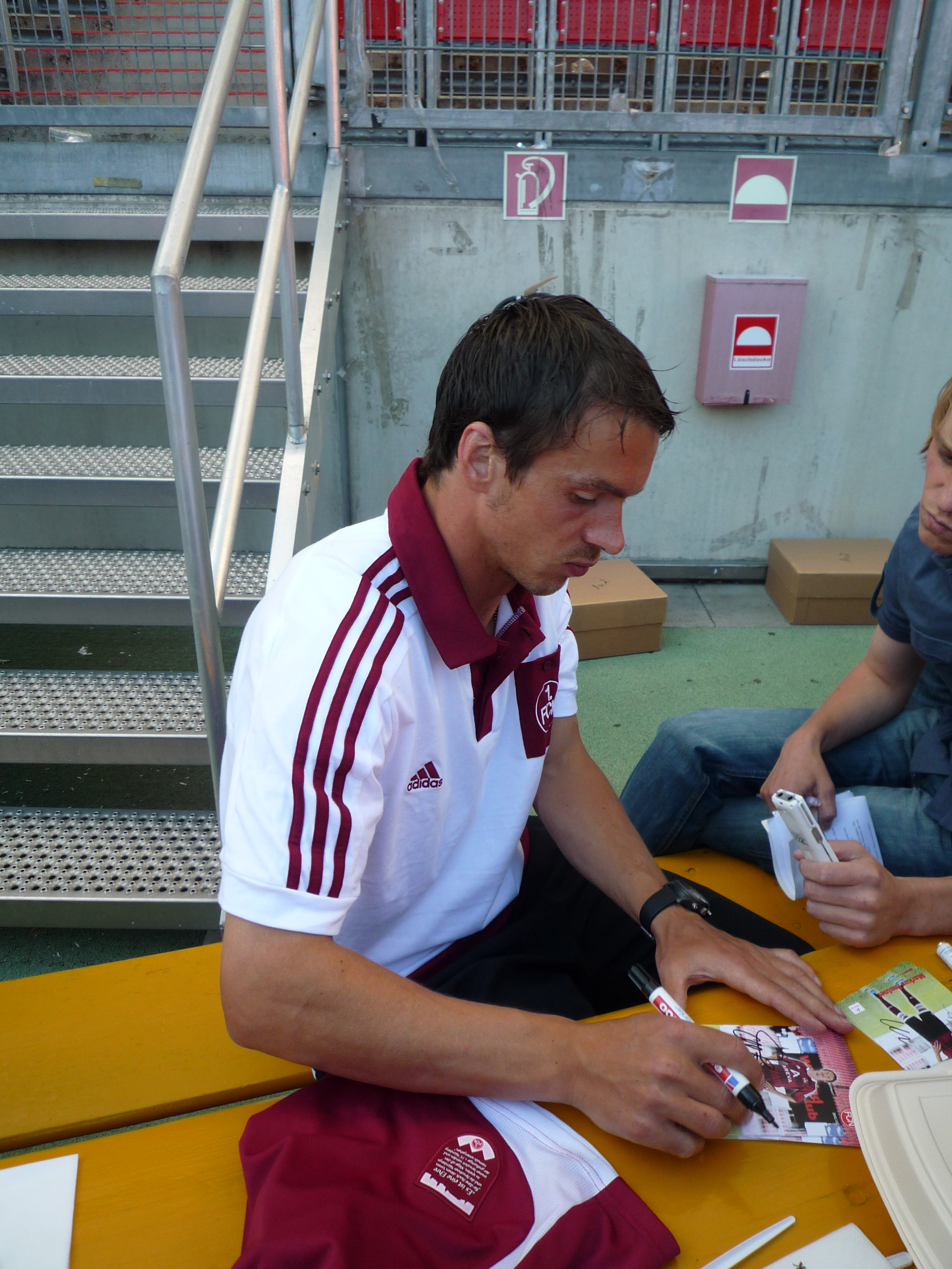 Markus Feulner